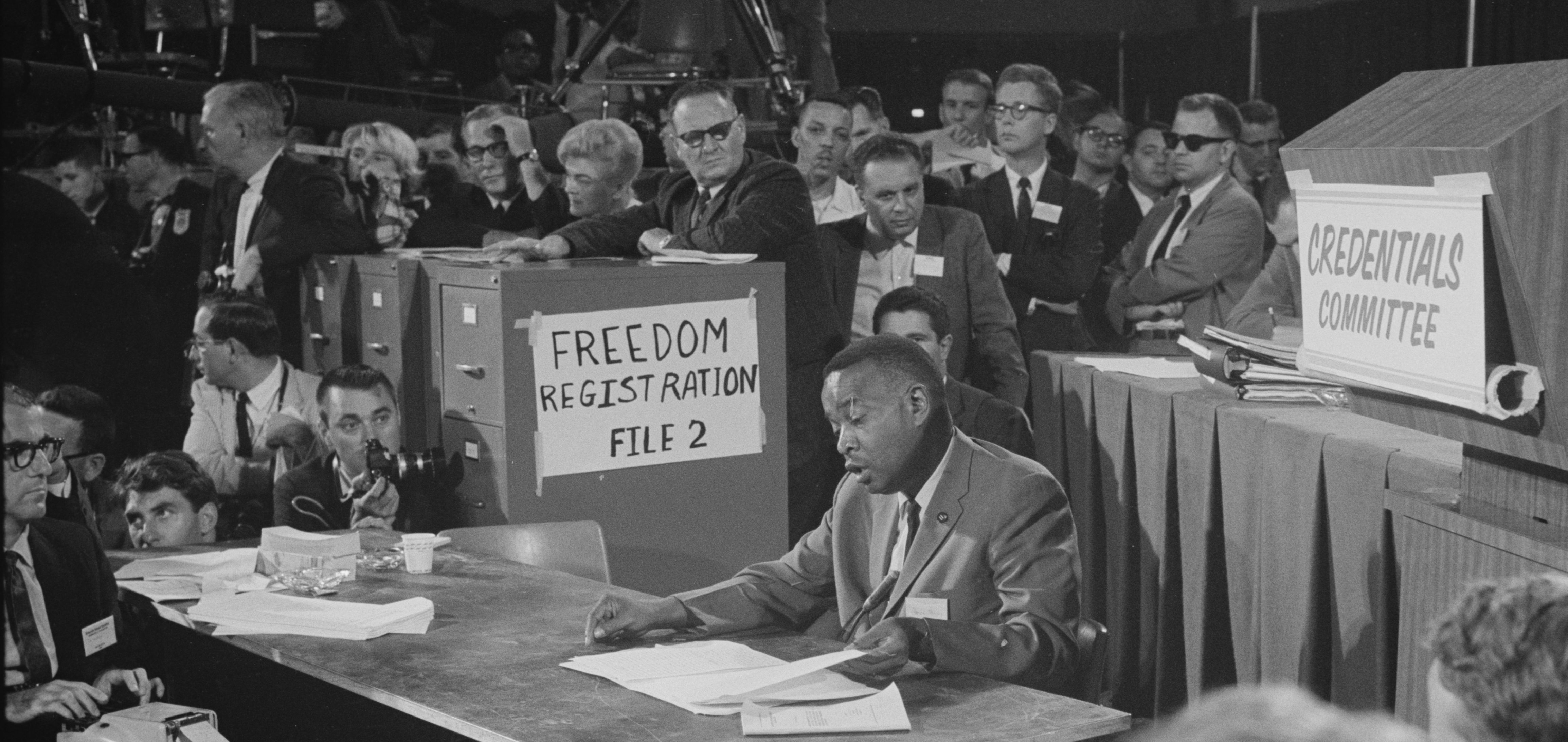 Aaron Henry, chair of the Mississippi Freedom Democratic Party delegation, reading from a document while seated before the Credentials Committee at the 1964 Democratic National Convention, Atlantic City, New Jersey